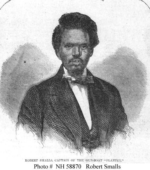 Robert Smalls Pilot of the Confederate Army armed transport Planter, who ran his ship out of Charleston Harbor, South Carolina, in the early morning of 13 May 1862 and delivered her to Federal forces. The Planter carried several other black men, women and children to freedom in this daring escape. Engraving published in Harper's Weekly, 1862. U.S. Naval Historical Center Photograph.